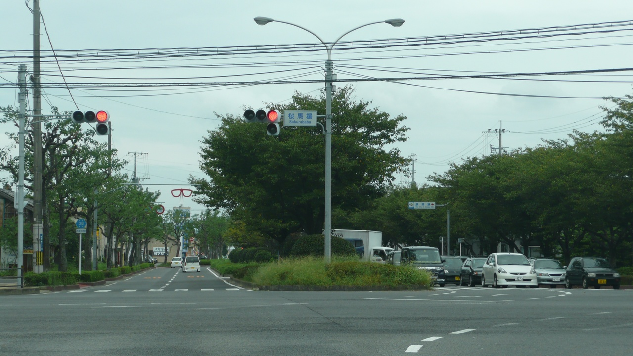 Nagasaki Prefectural Road 38 (Sakurababa, Omura, Nagasaki, Japan)